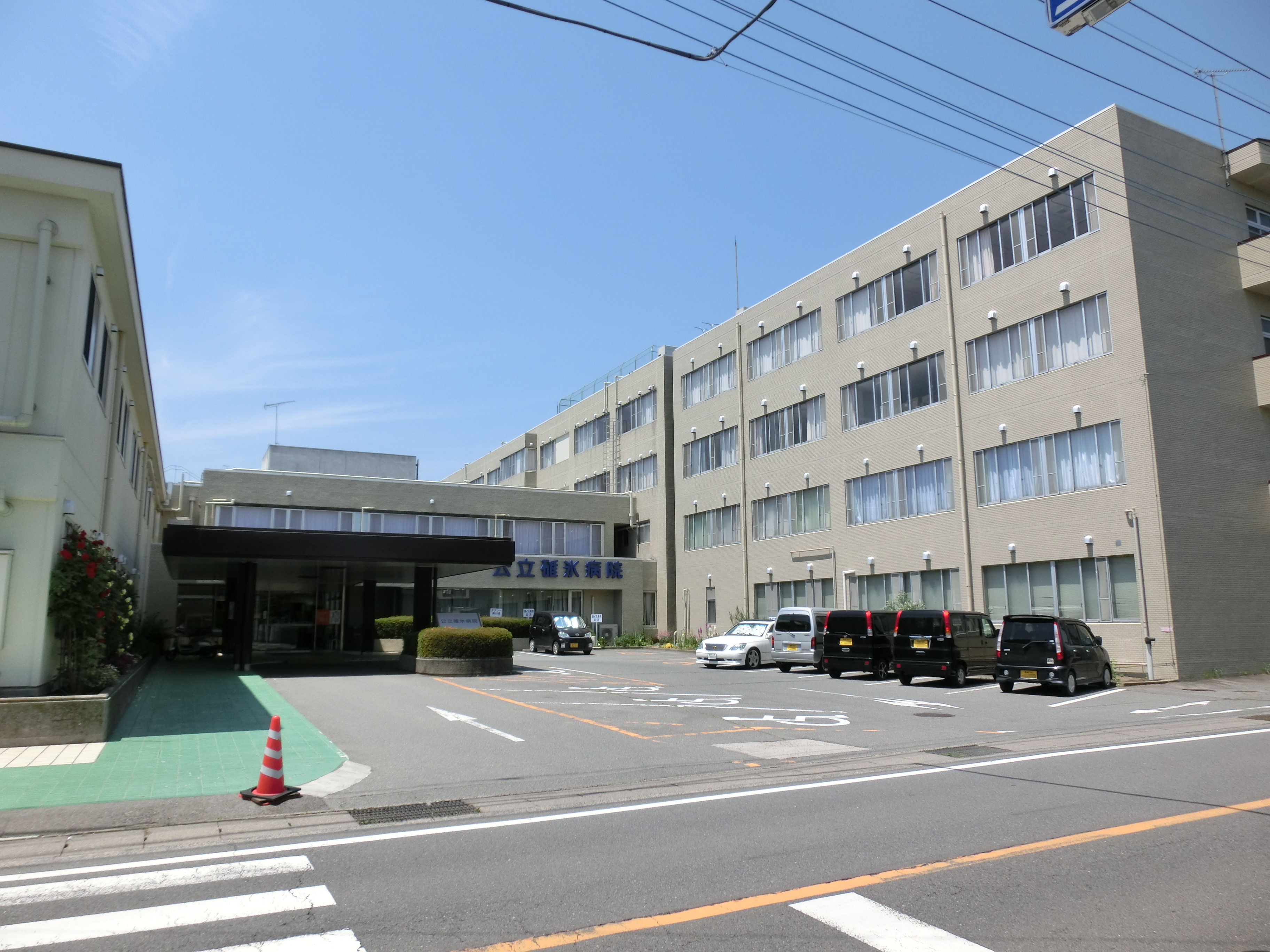 Usui Hospital